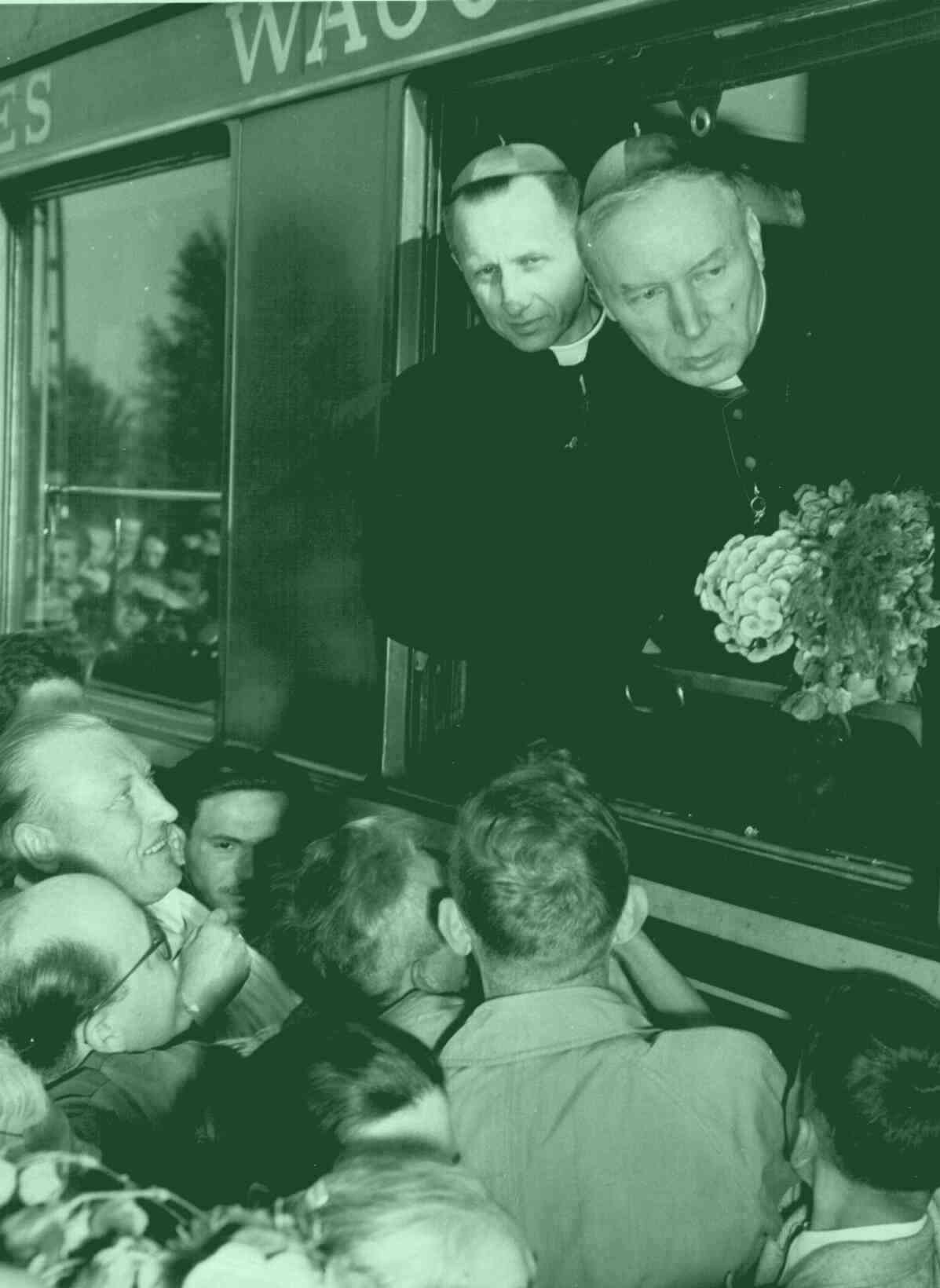 Antoni Baraniak and Stefan Wyszyński are leaving Poznañ to Rome